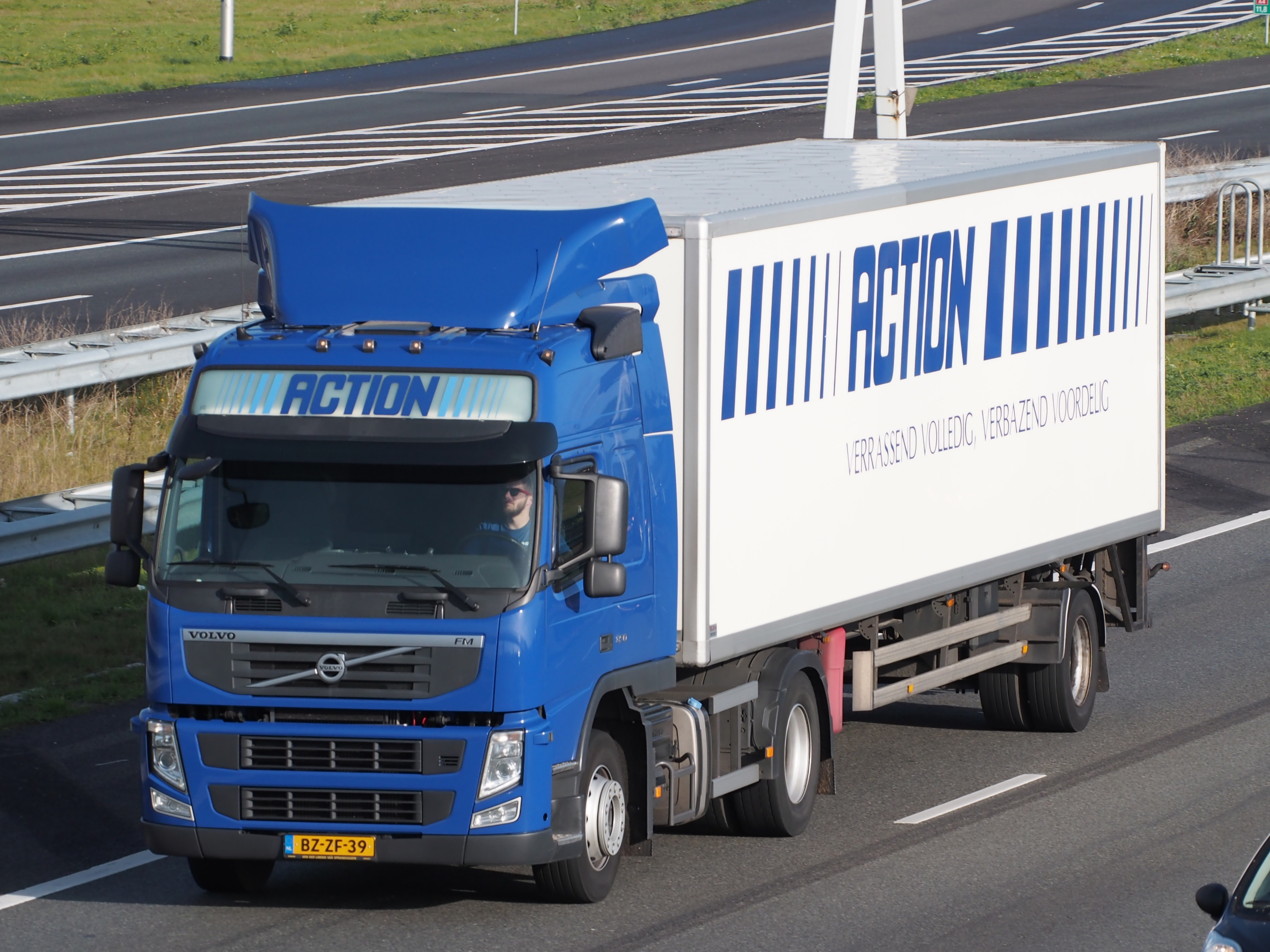 Photographed on the A4 near Hoofddorp, the Netherlands.